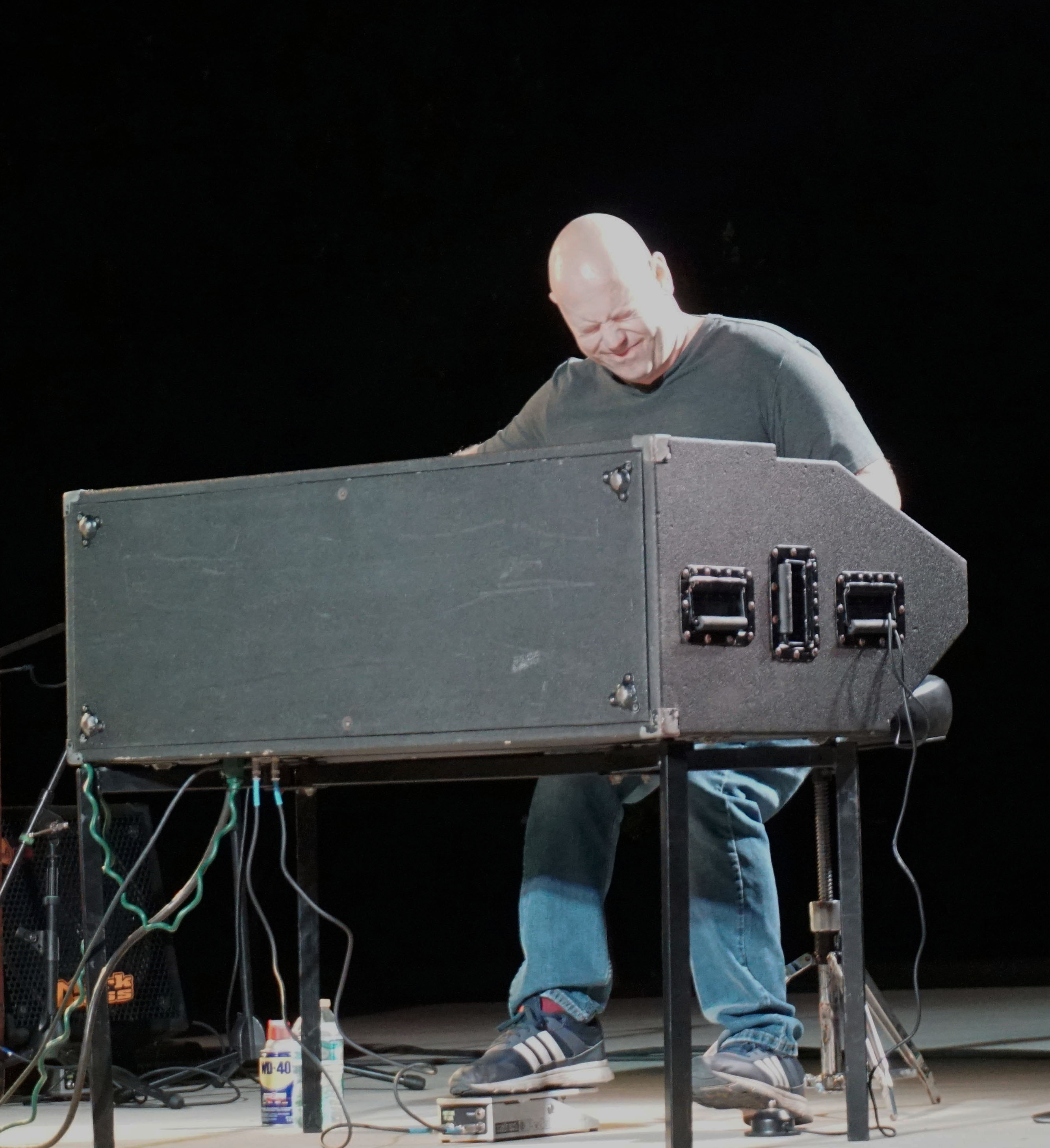 Toby Lee Marshall playing B3 Organ with the Koch Marshall Trio in Wauwatosa Wisconsin September 8, 2018